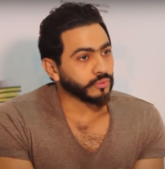 Video: Tamer Hosny, I tell young people that there is no such thing as impossible in life